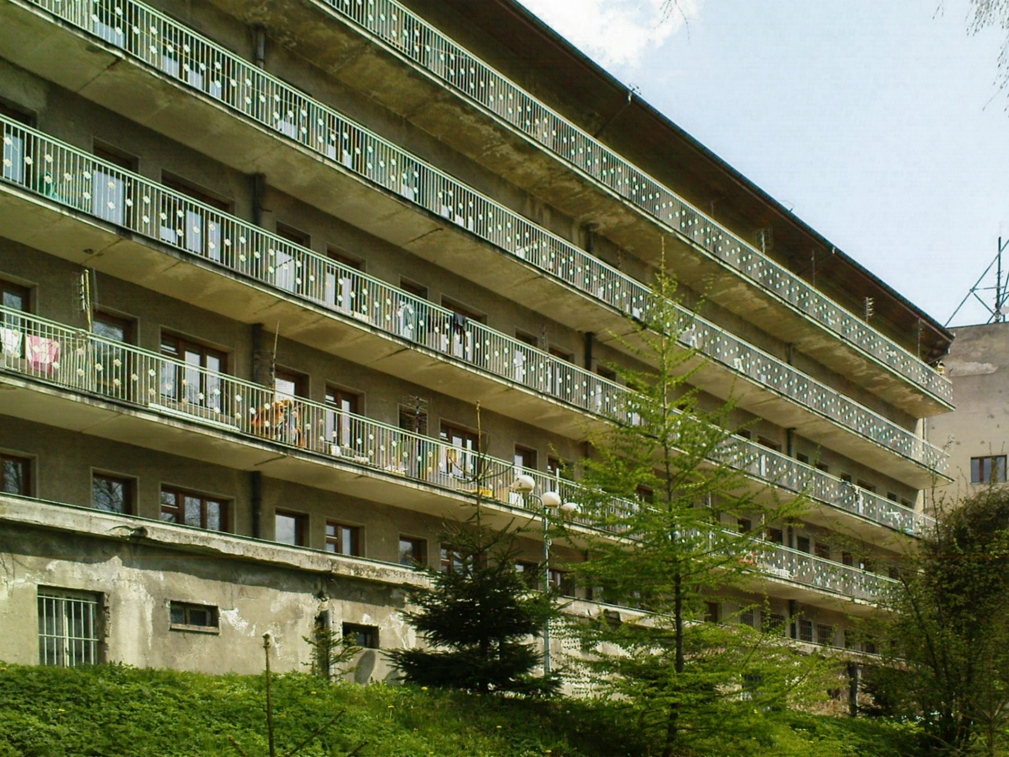 Maków Podhalański - Long-Term Care Division of Medical Sciences named "St. Catherine of Siena" (the former tuberculosis sanatorium), Mickiewicz street